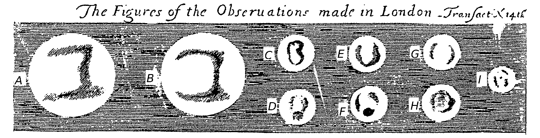 Fig. A-I, Number 14 from Philosophical Transactions, Volume 1